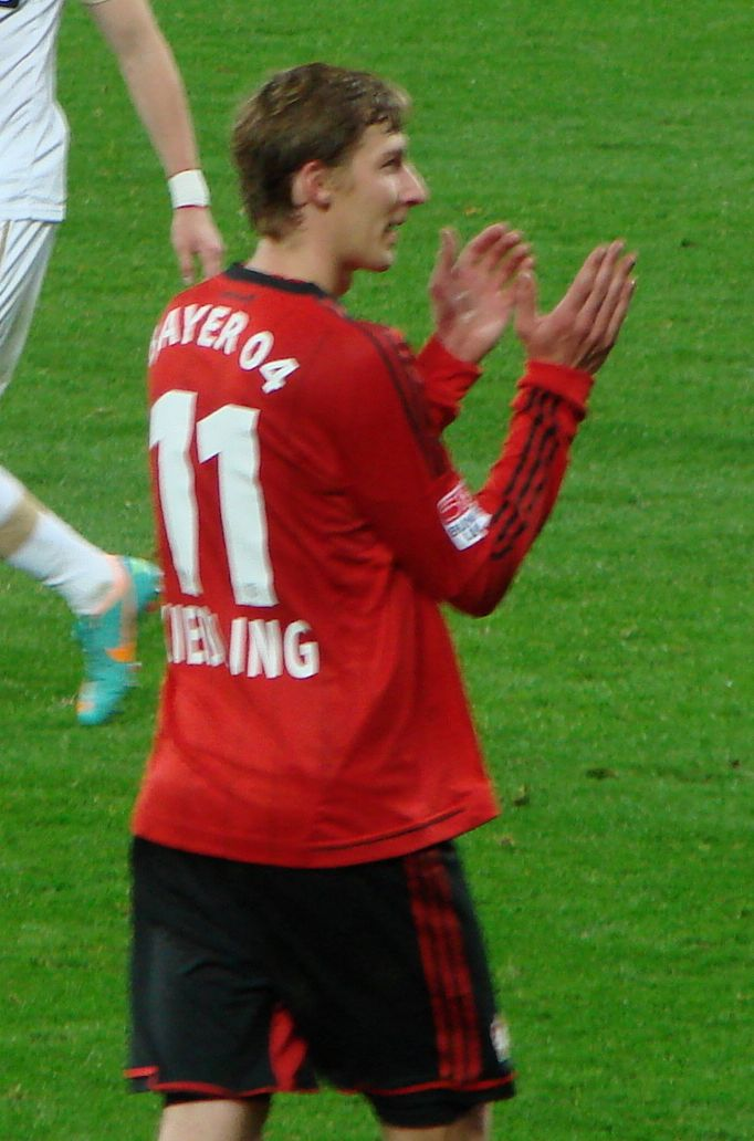 Stefan Kießling - german striker - playing for Bayer 04 Leverkusen in a Bundesliga home match against Fortuna Düsseldorf on the 4th of November, 2012.